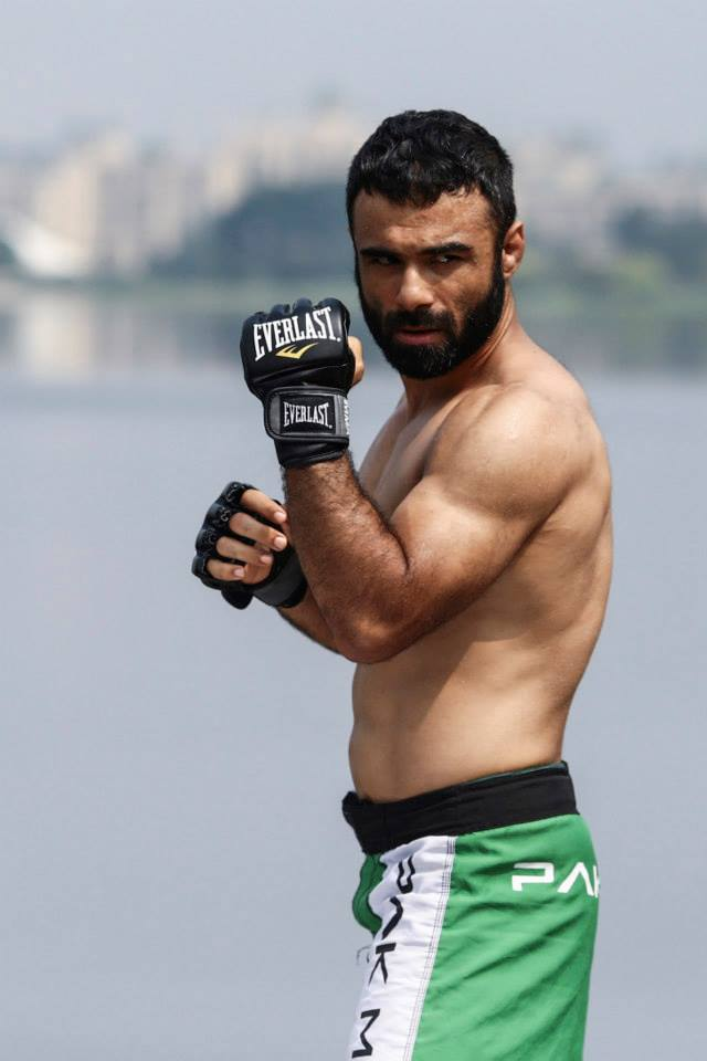 Bashir Ahmad, a mixed martial artist is the God-father of MMA in Pakistan